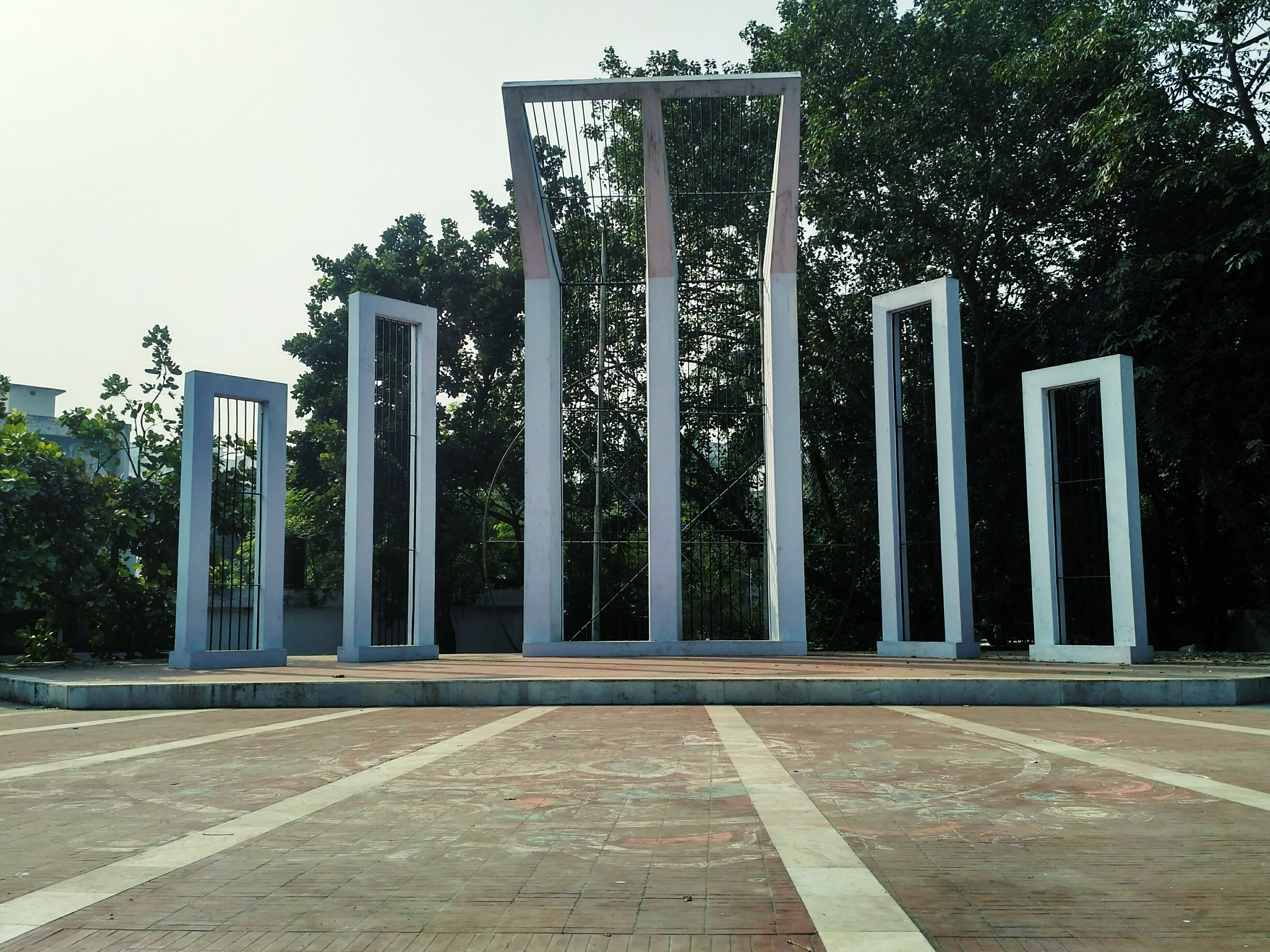 Central Shaheed Minar, Dhaka, Bangladesh.(November 2018.)